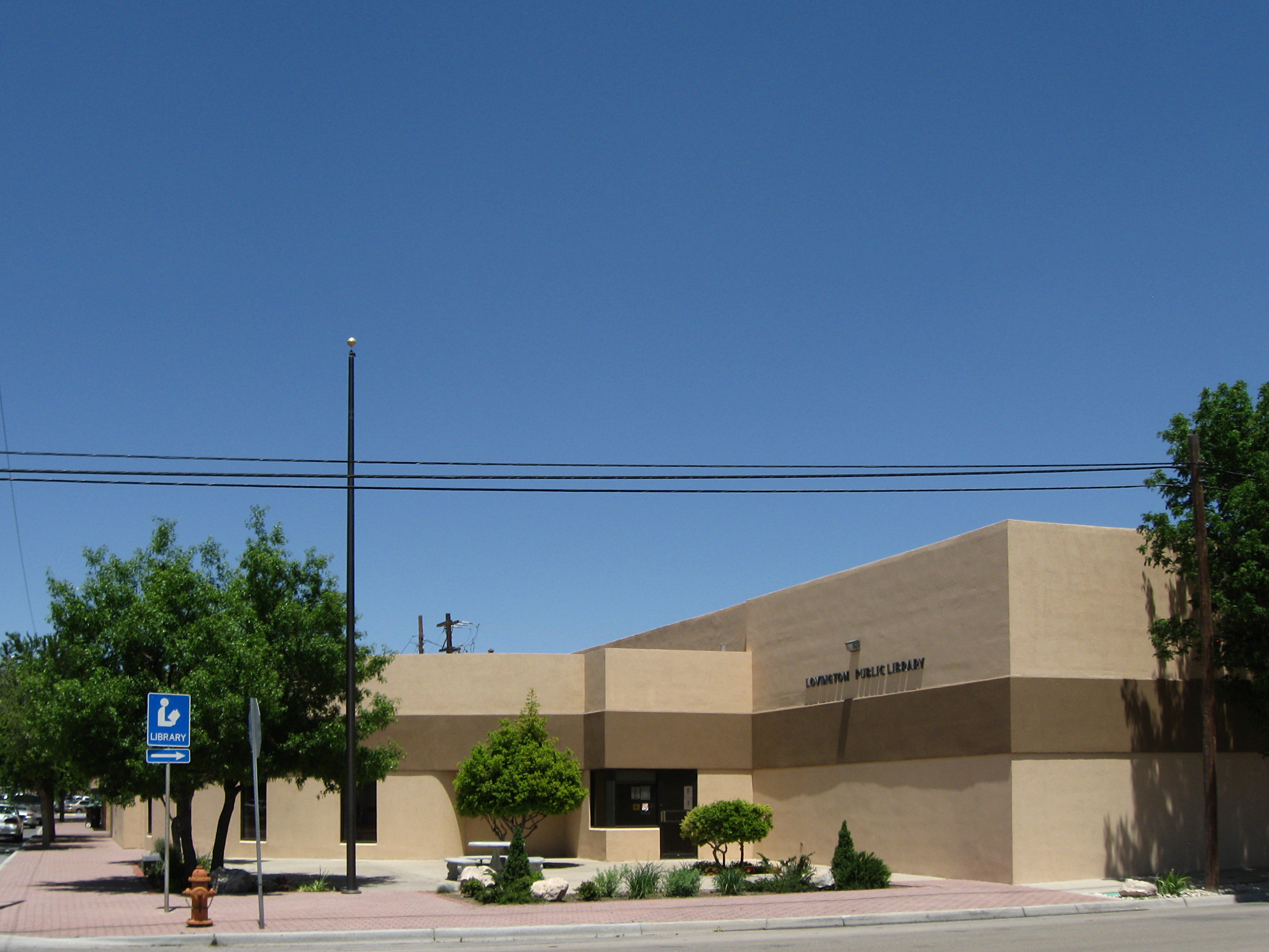 Lovington (New Mexico) Public Library, located at 115 South Main Street in Lovington, New Mexico.